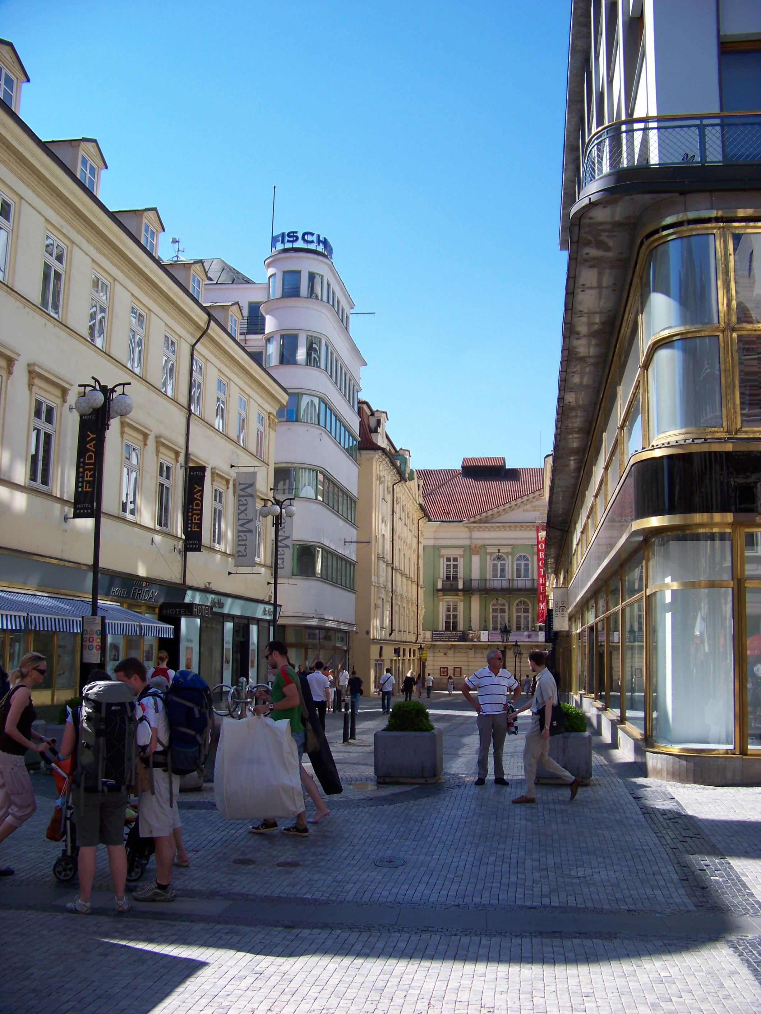 Prague-Old Town, the Czech Republic. Havířská street. - OpenStreetMap(Info)